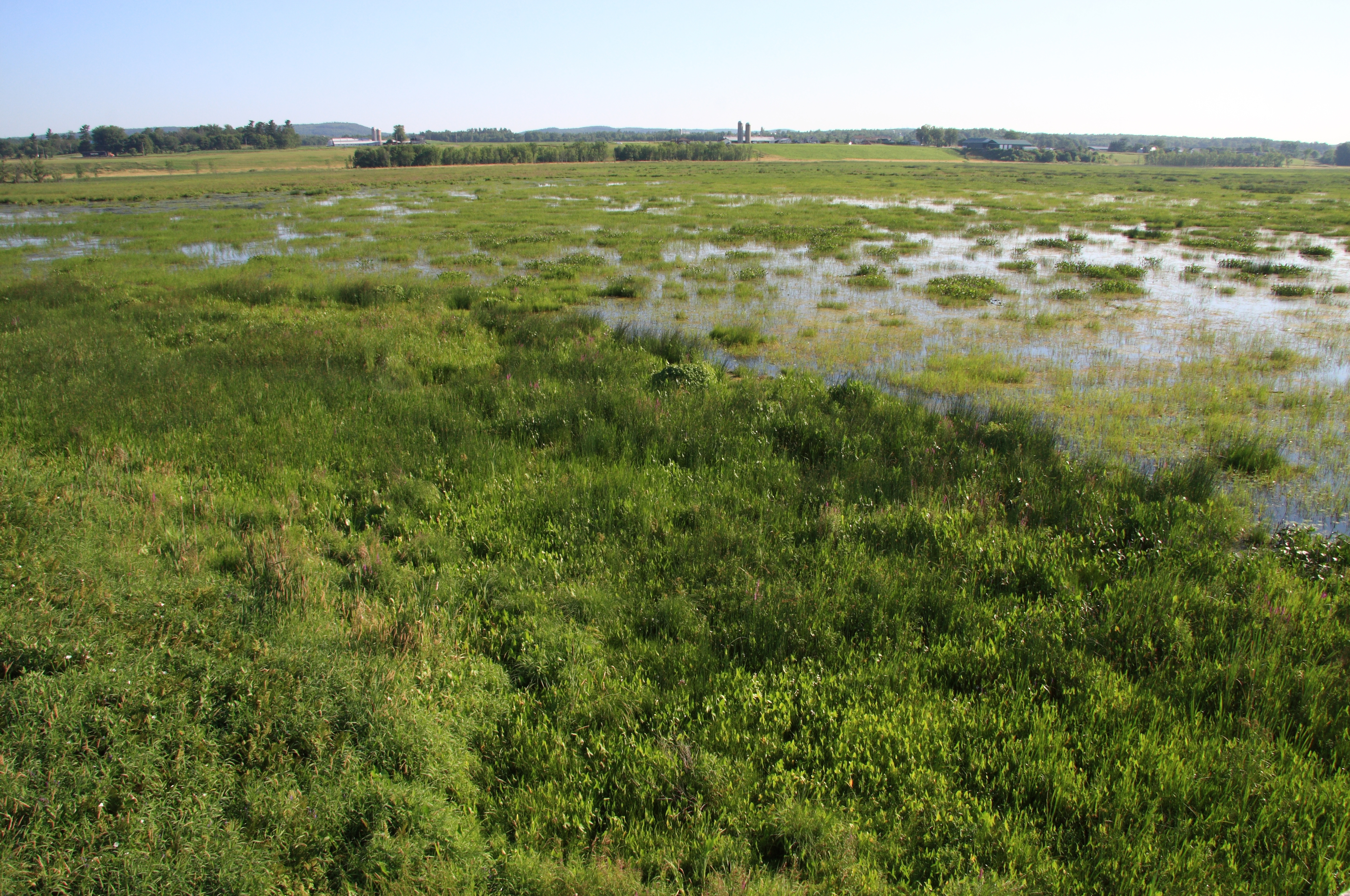 Perra marsh, Plaisance National Park, Quebec, Canada